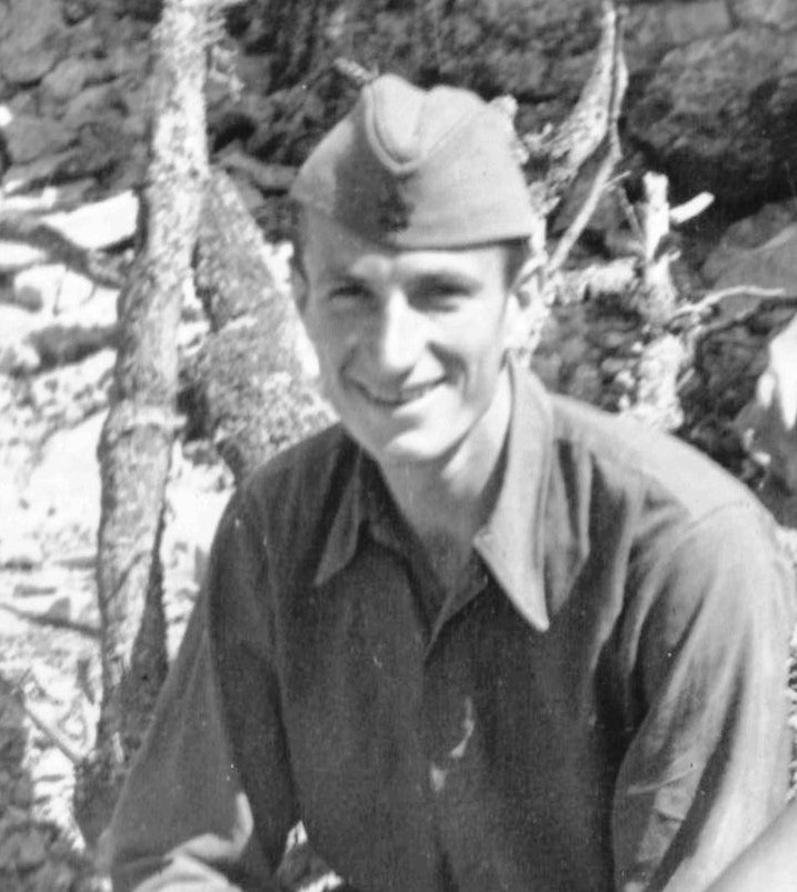 Petar Babić (1919-2006)